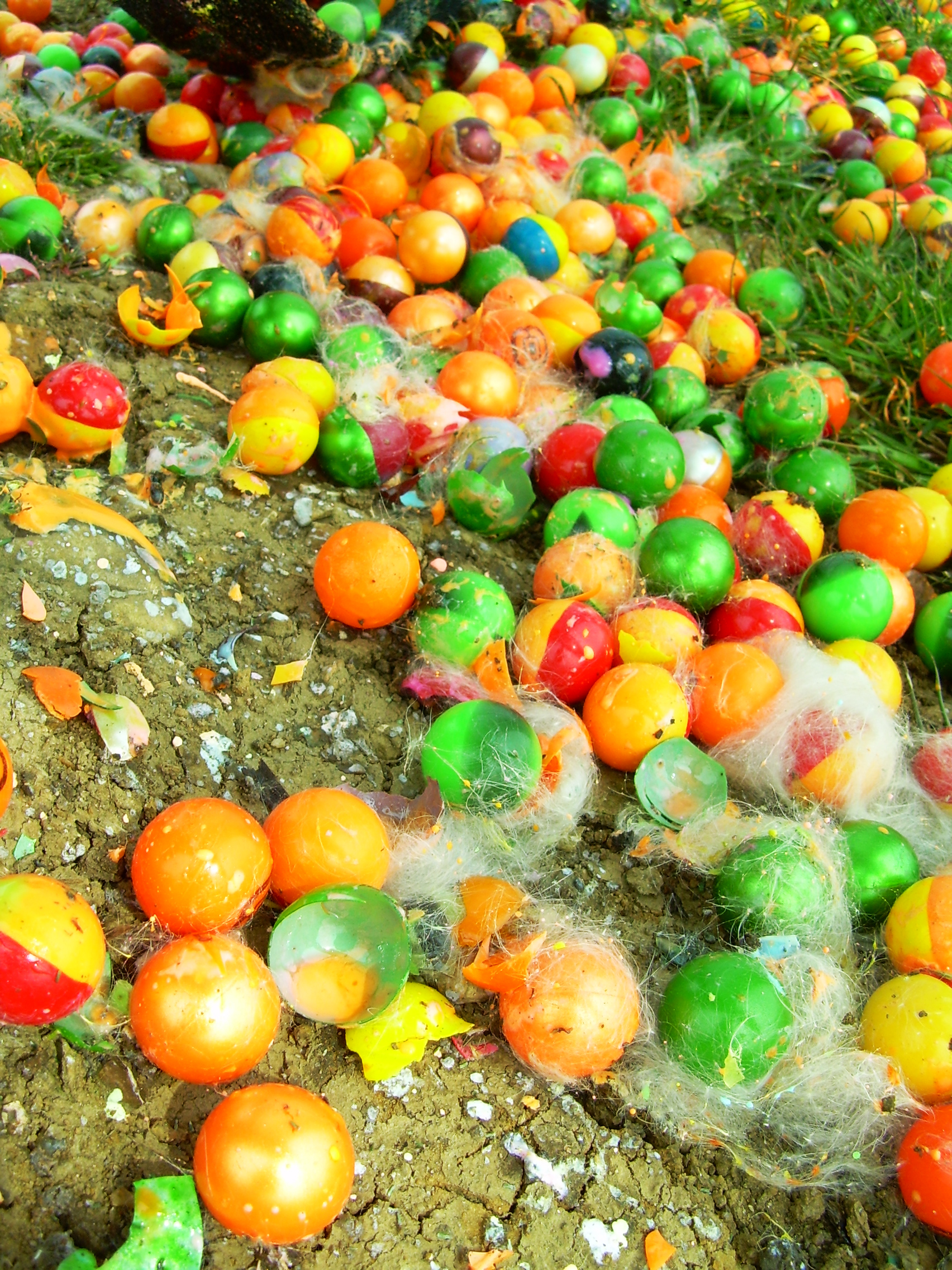 Many used or smashed paintballs on the floor.